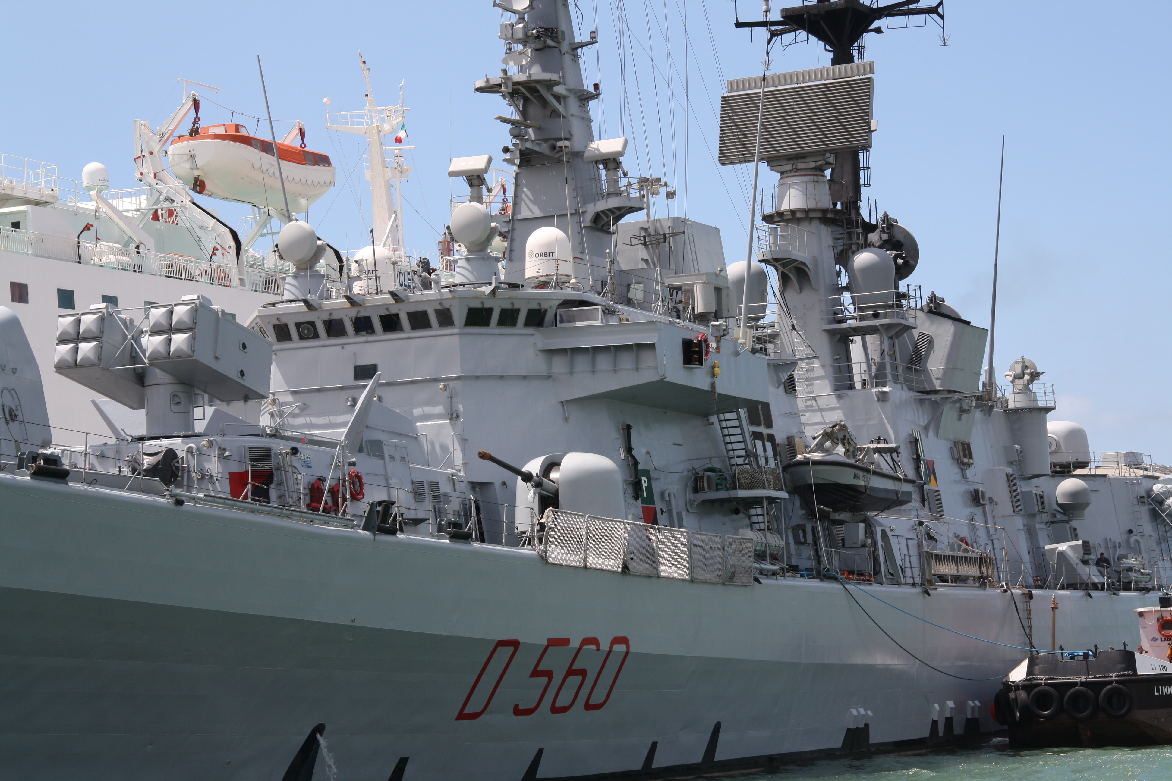 Italy Navy: Marina Militare Type: Destroyer Keel laid: 20 January 1988 Year of construction: 29 October 1989 Shipyard: Fincantieri, Riva Trigoso Displacement: 5560 t Length overall: 147.7 m Breadth: 16.1 m Draught: 5 m Speed: 31 knots Crew: 350